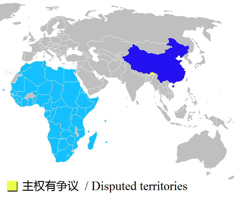 Members of FOCAC. 本图片由zh:User:wangyunfeng绘制完成。